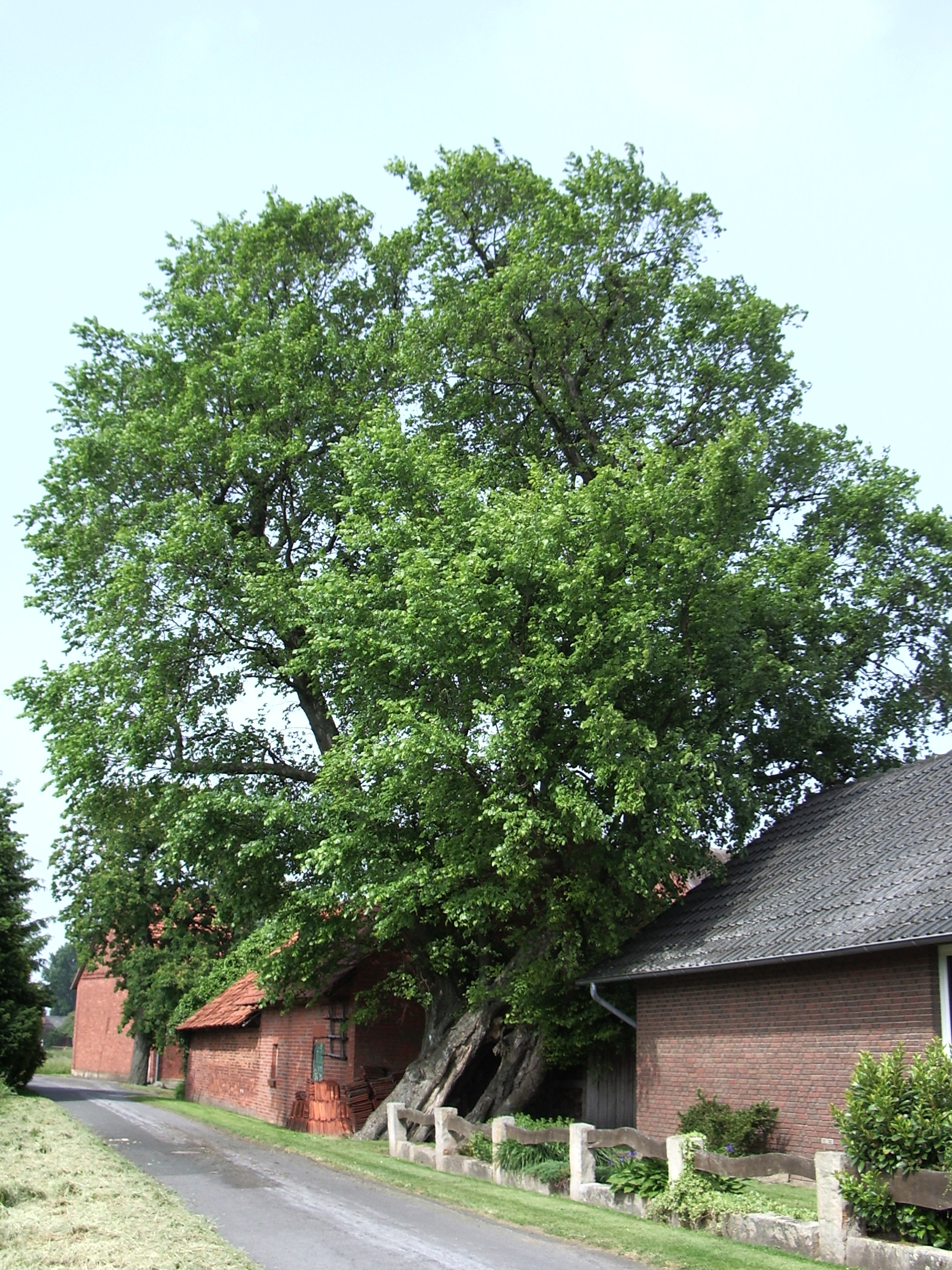 very old elm in Bierde, approx 600 years in 2008